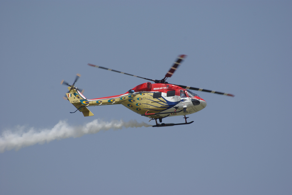 HAL Dhruv helicopter of the Indian Air Force Sarang aerobatic display team.